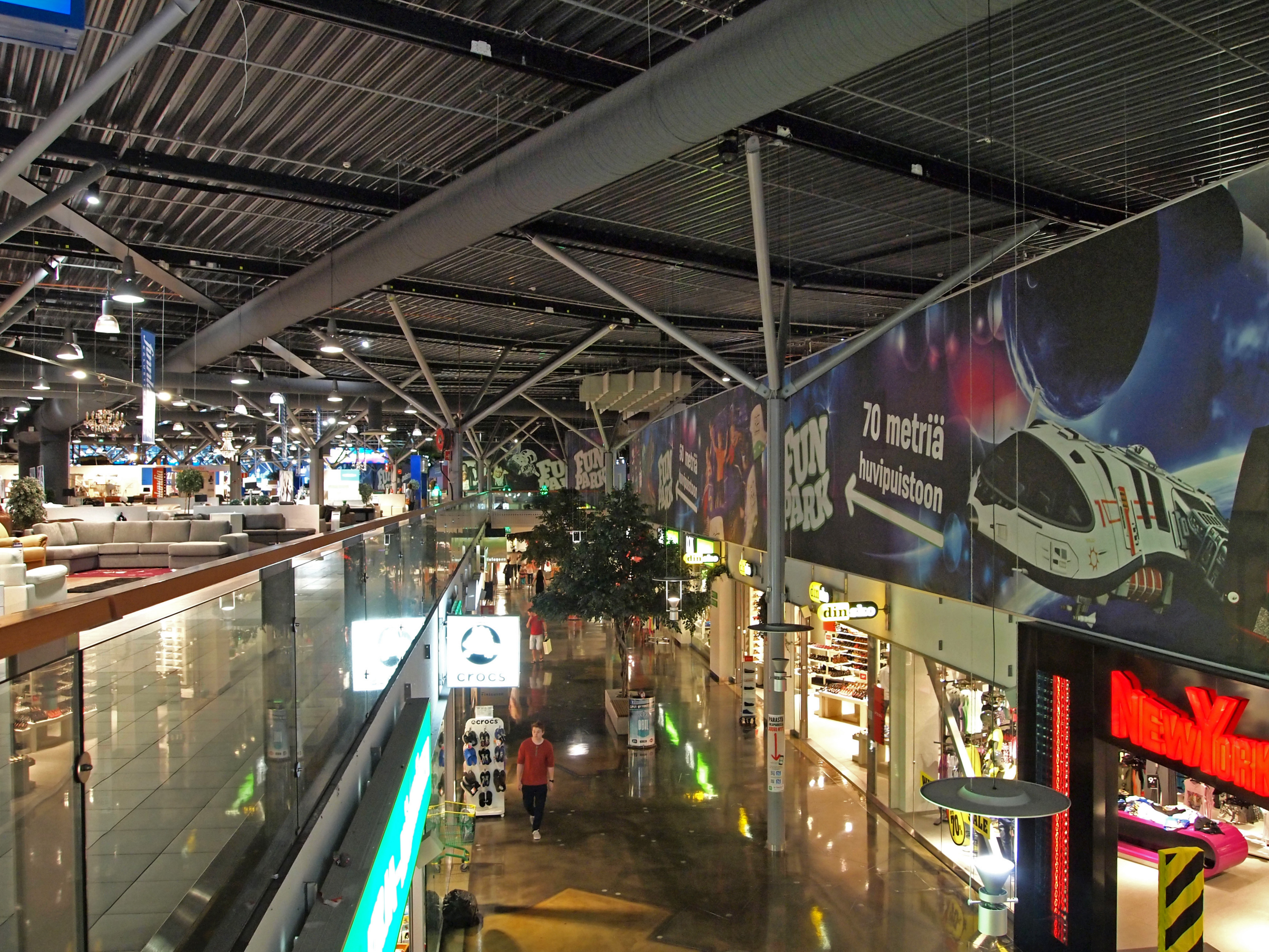 Inside Ideapark shopping mall in Lempäälä. This photograph was taken with an Olympus E-PL1